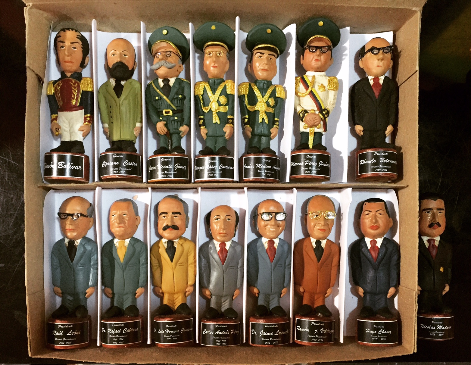 Figuras de arcilla que representan a Simón Bolívar y la mayoría de los presidentes de Venezuela de los siglos XX y XXI. Mercado Principal de Mérida.